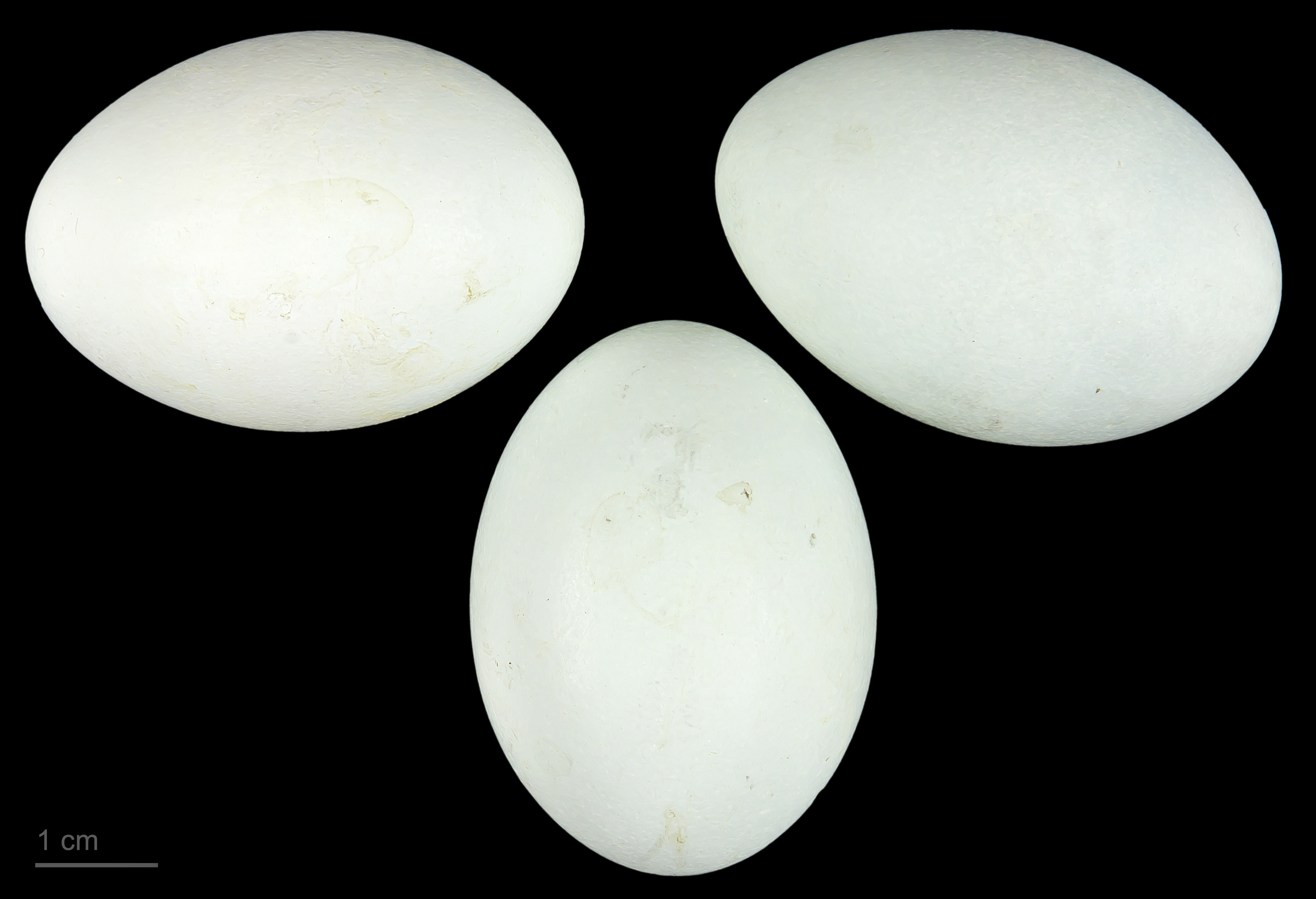 Eggs of black heron Three specimens of the same spawn ; collection of Jacques Perrin de Brichambaut.